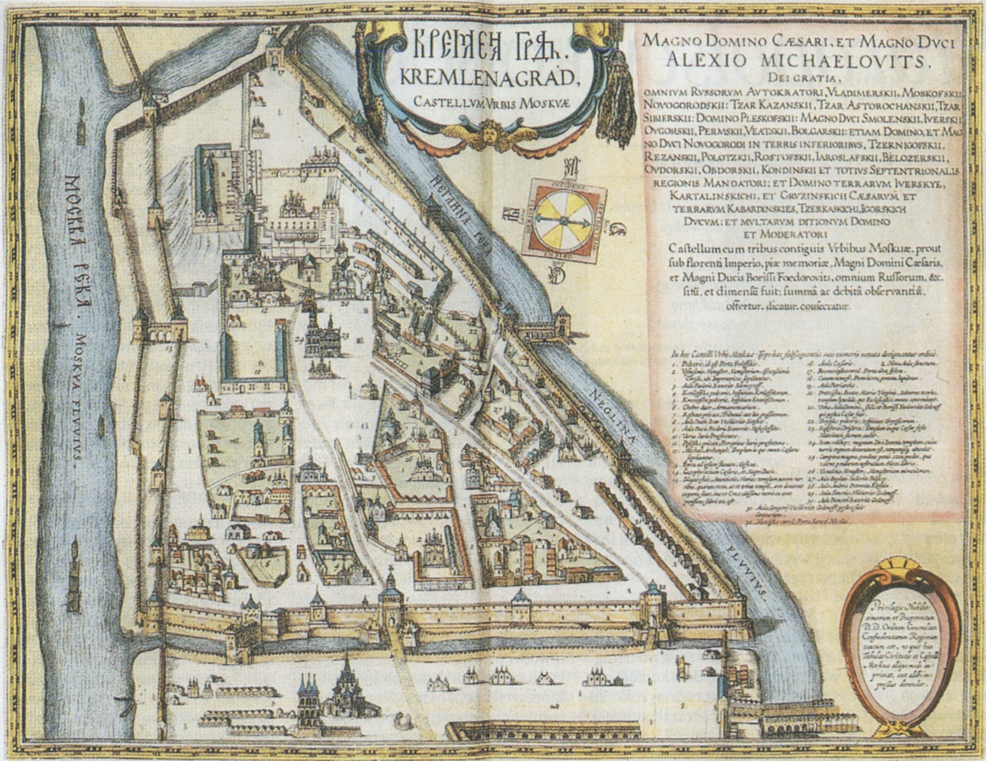 Map od Kreml, half of XVII century